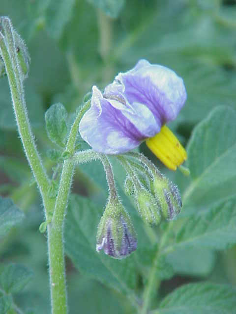 Species: Solanum ambosinum Family: Solanaceae Image No. 2